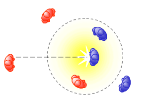 An illustration of splash damage, created by myself.